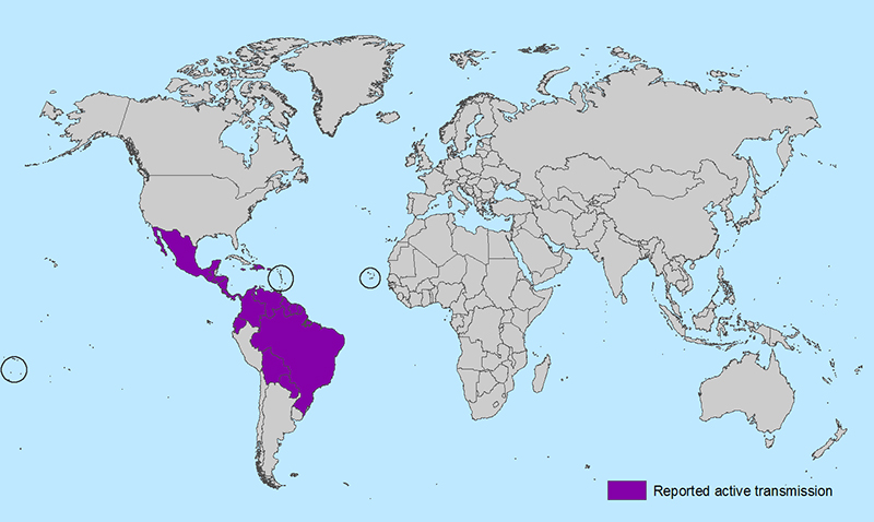 Map of reported transmission of Zika virus as of February 3, 2016.